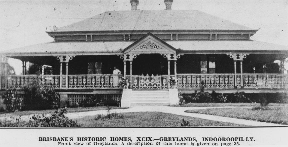 Gracious Indooroopilly residence, Greylands, ca. 1932.